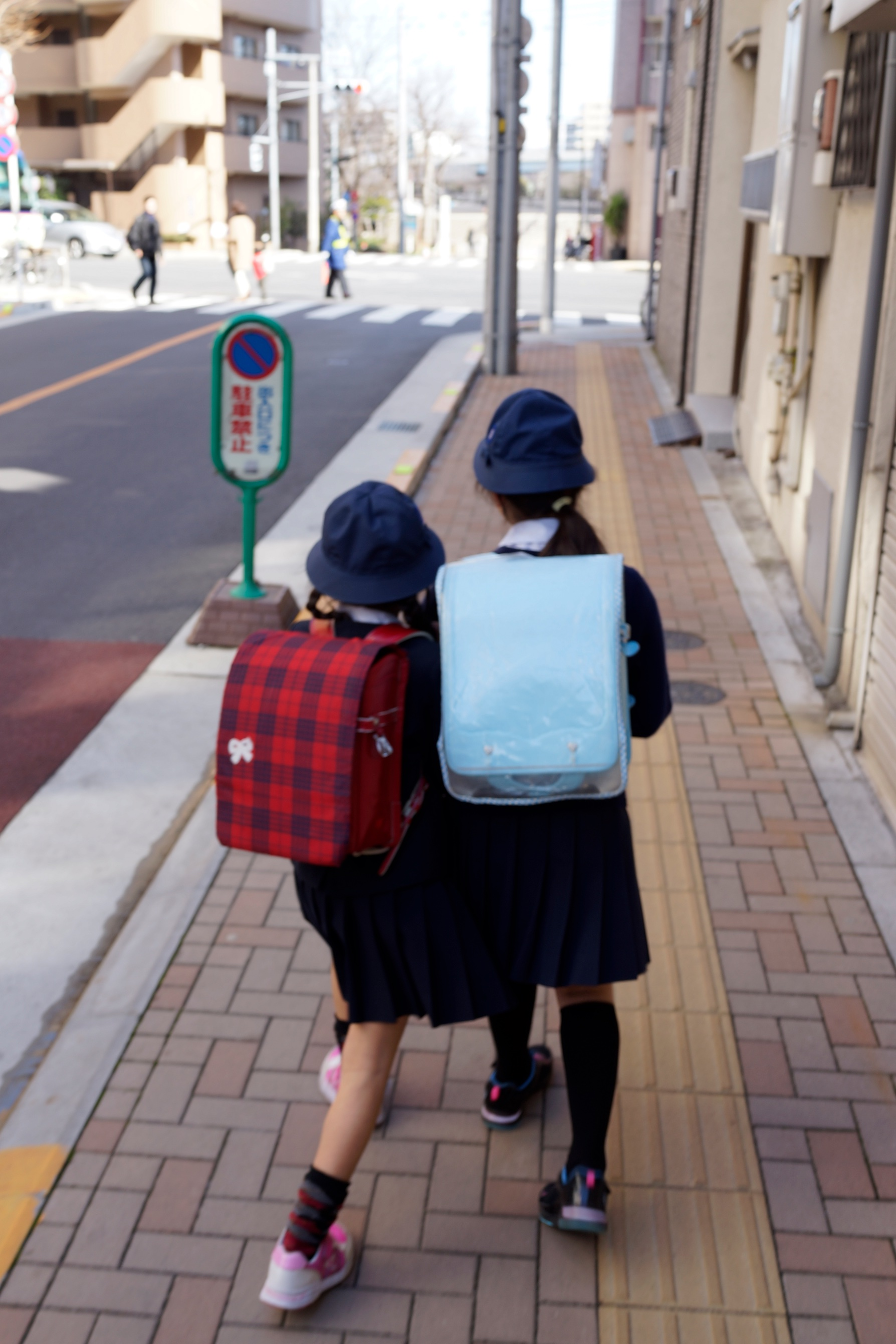 Uniform